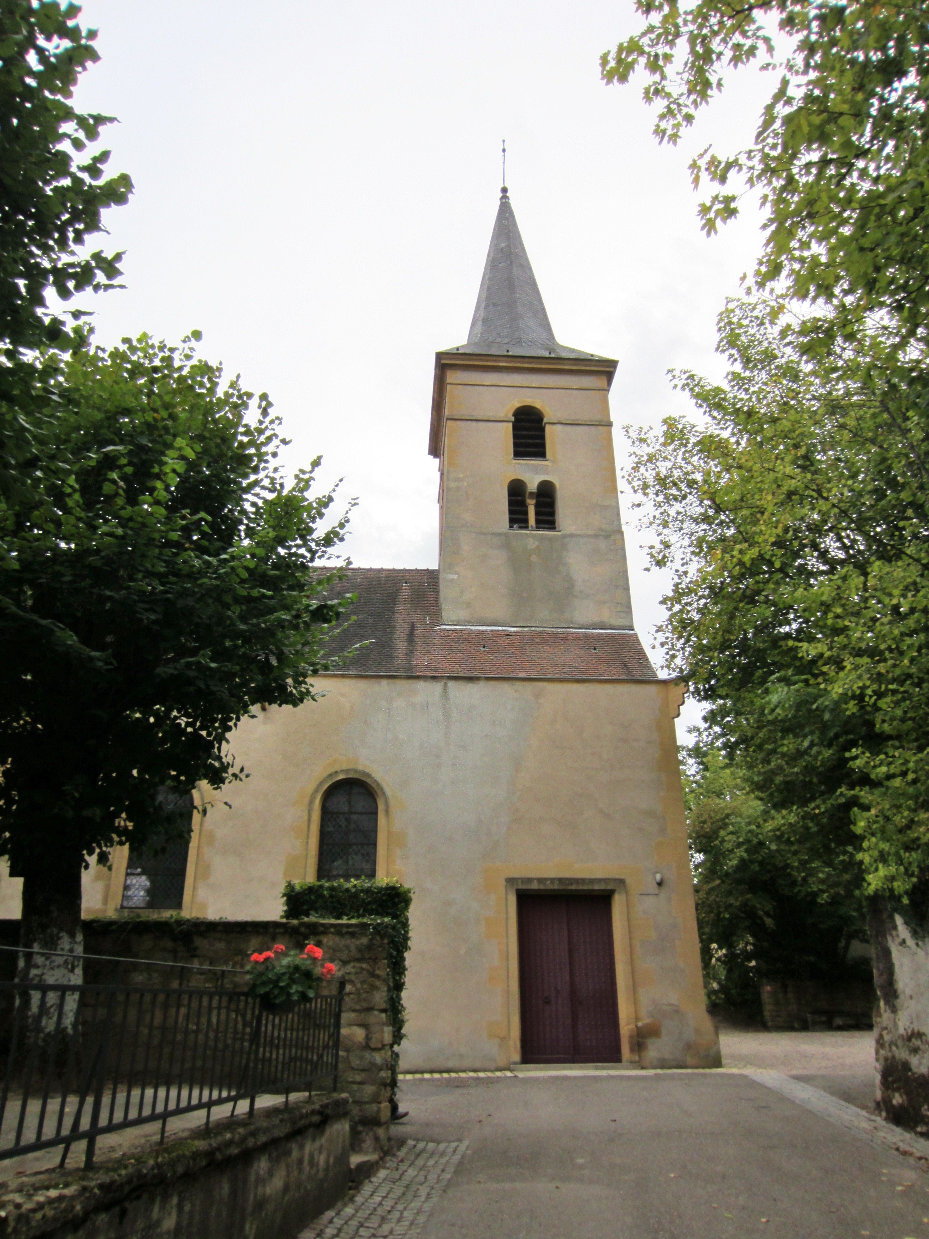 Description Église Saint-Hilaire Jussy Date7 September 2011Sourcemon appareil photoAuthorAimelaimePermission (Reusing this file) Église Saint-Hilaire Jussy